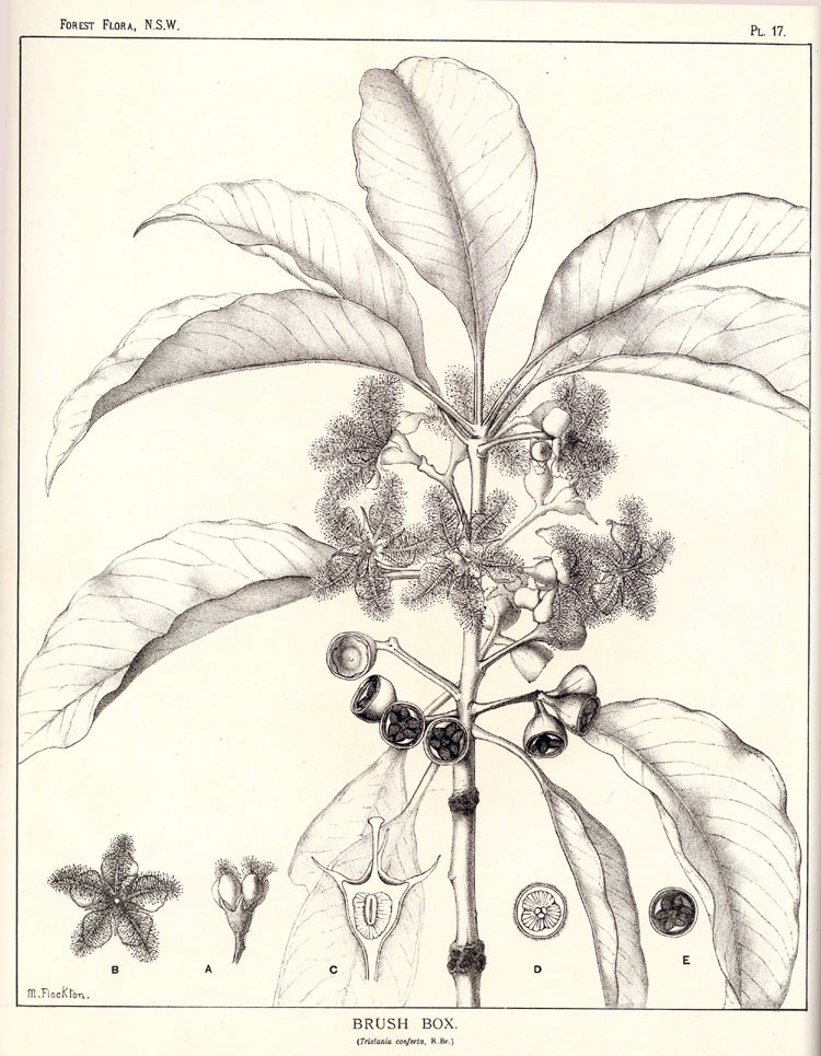 Lophostemon confertus (R. Br.) Peter G. Wilson & J. T. Waterh., Plate 17 from "Forest Flora of New South Wales" by Joseph Henry Maiden (1859–1925)